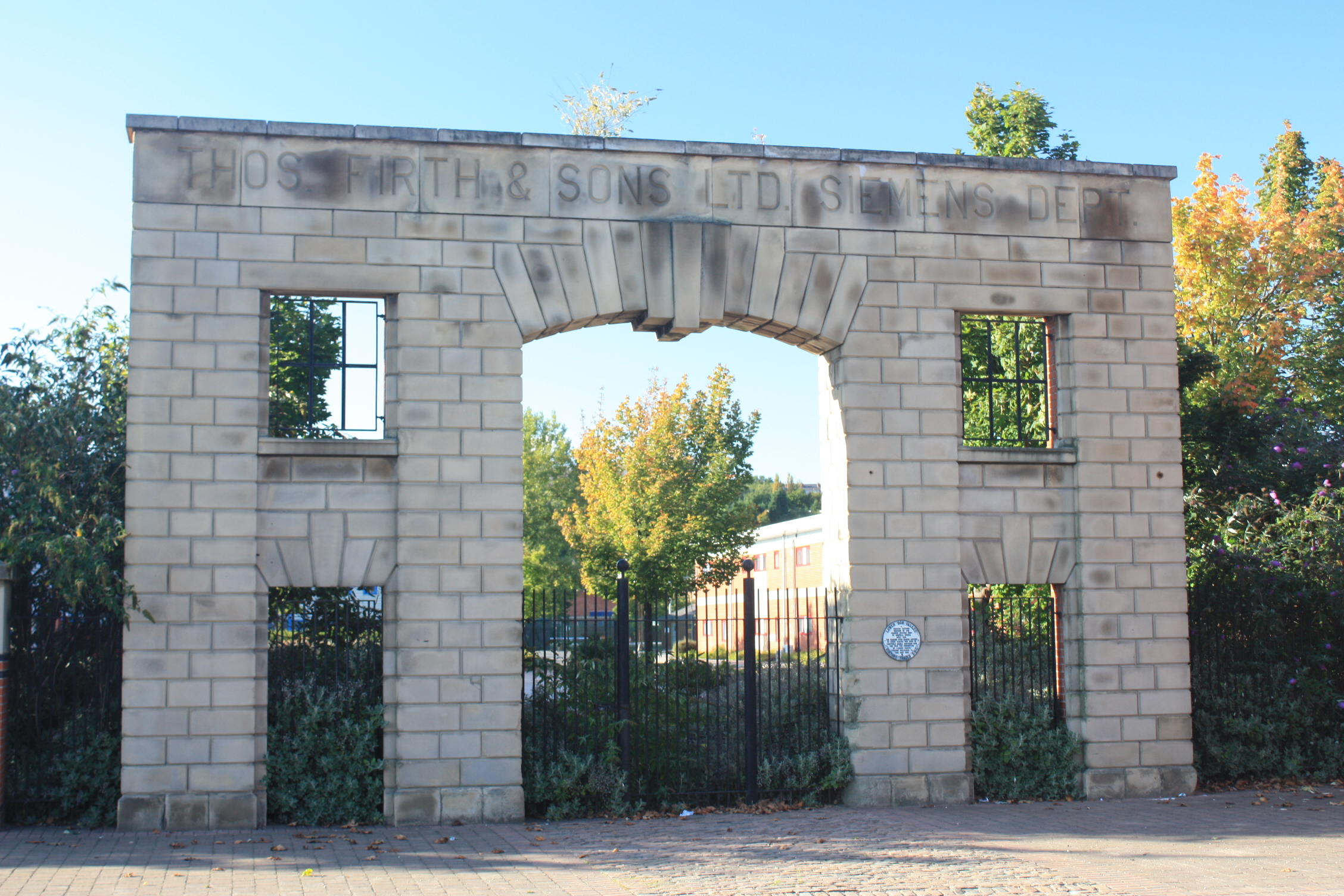 The Gateway arch of Thomas Firth & Sons, Norfolk works of 1918, In the lower Don Valley Sheffield (Relocated in 1993 by SDC as part of the regeneration scheme and road widening).